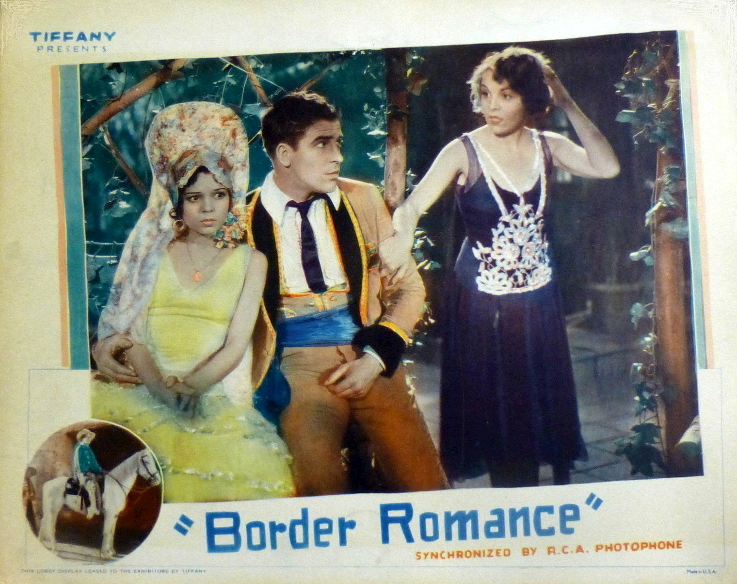 Lobby card from the American romantic western film Border Romance (1929).